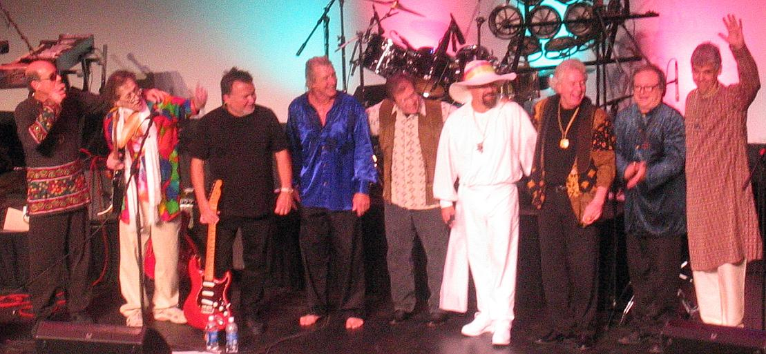 Strawberry Alarm Clock on April 29th, 2007 at the Virginia Theatre.